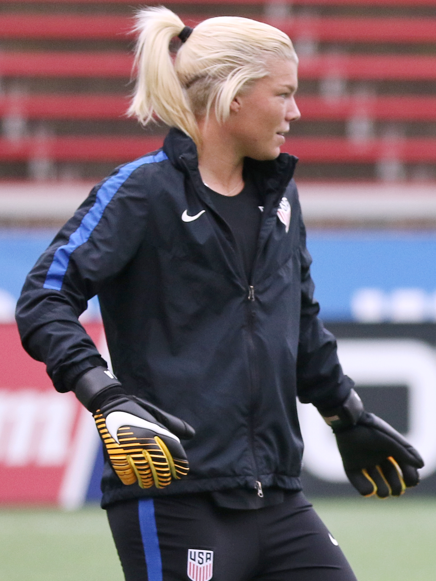 Jane Campbell trains with the USWNT in Cincinnati, Ohio, in September 2017.